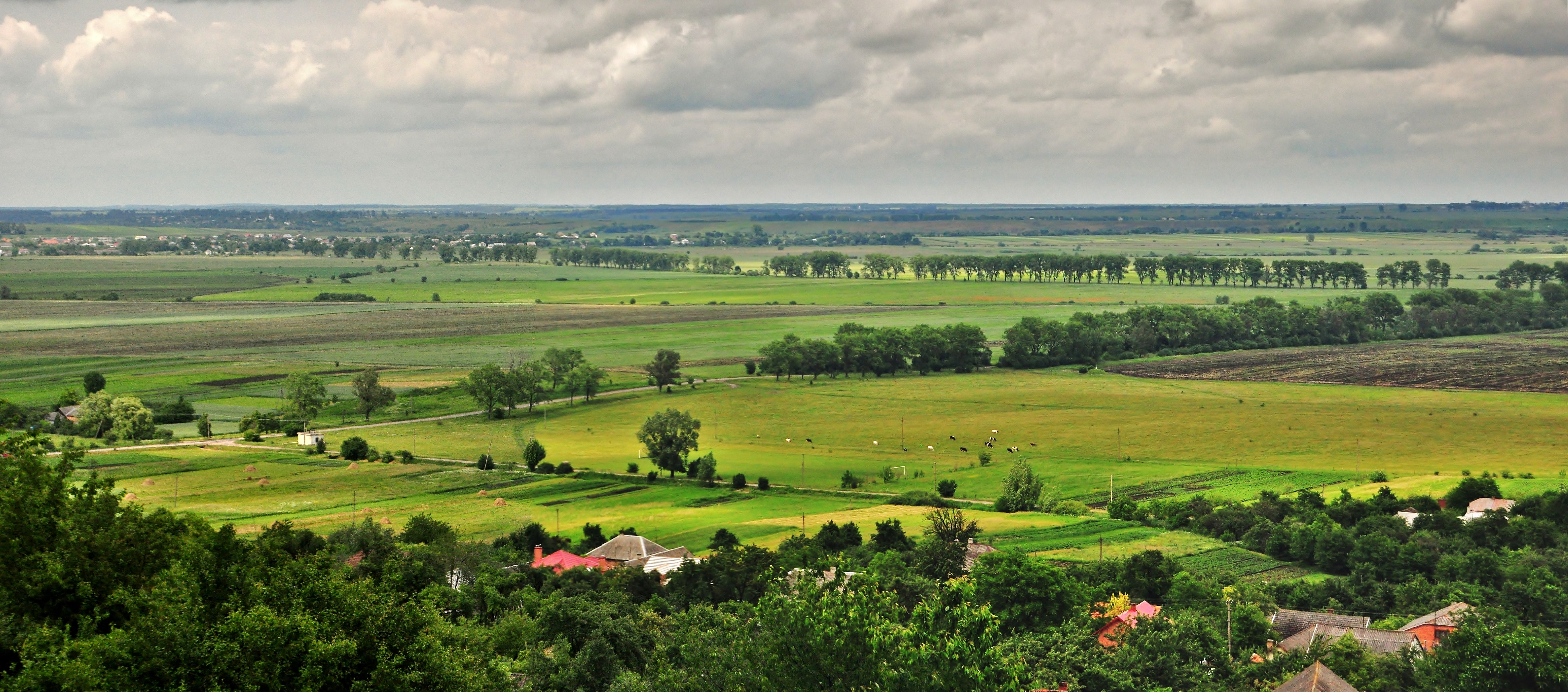 Panorama of Vidnyky village, Pustomyty Raion Lviv Oblast